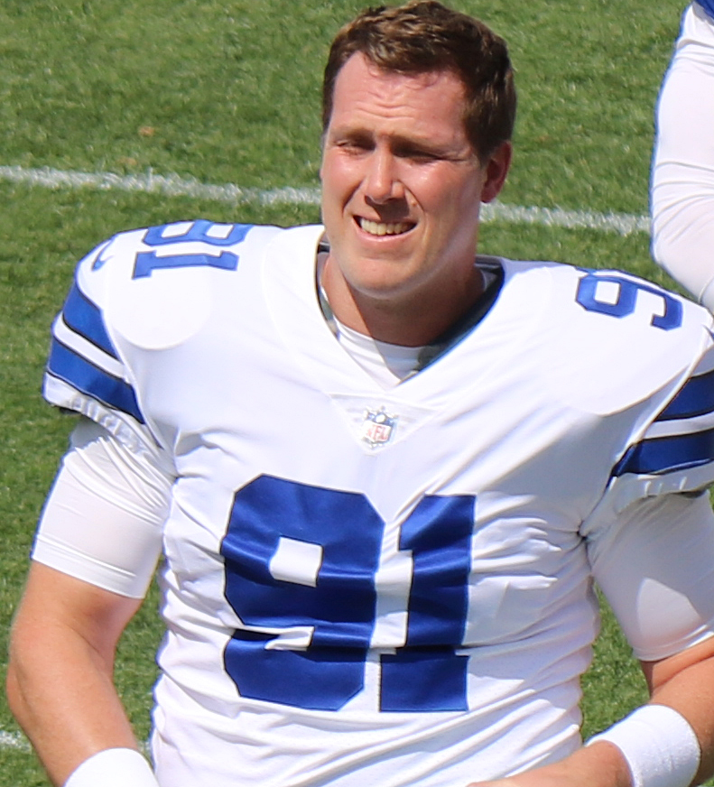 L. P. Ladouceur, a player on the National Football League.